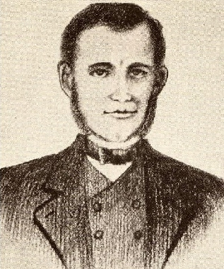 Sketch alleged to be of William B. Travis, who commanded the Texian forces at the Battle of the Alamo. This is the only known drawing of Travis done during his lifetime.